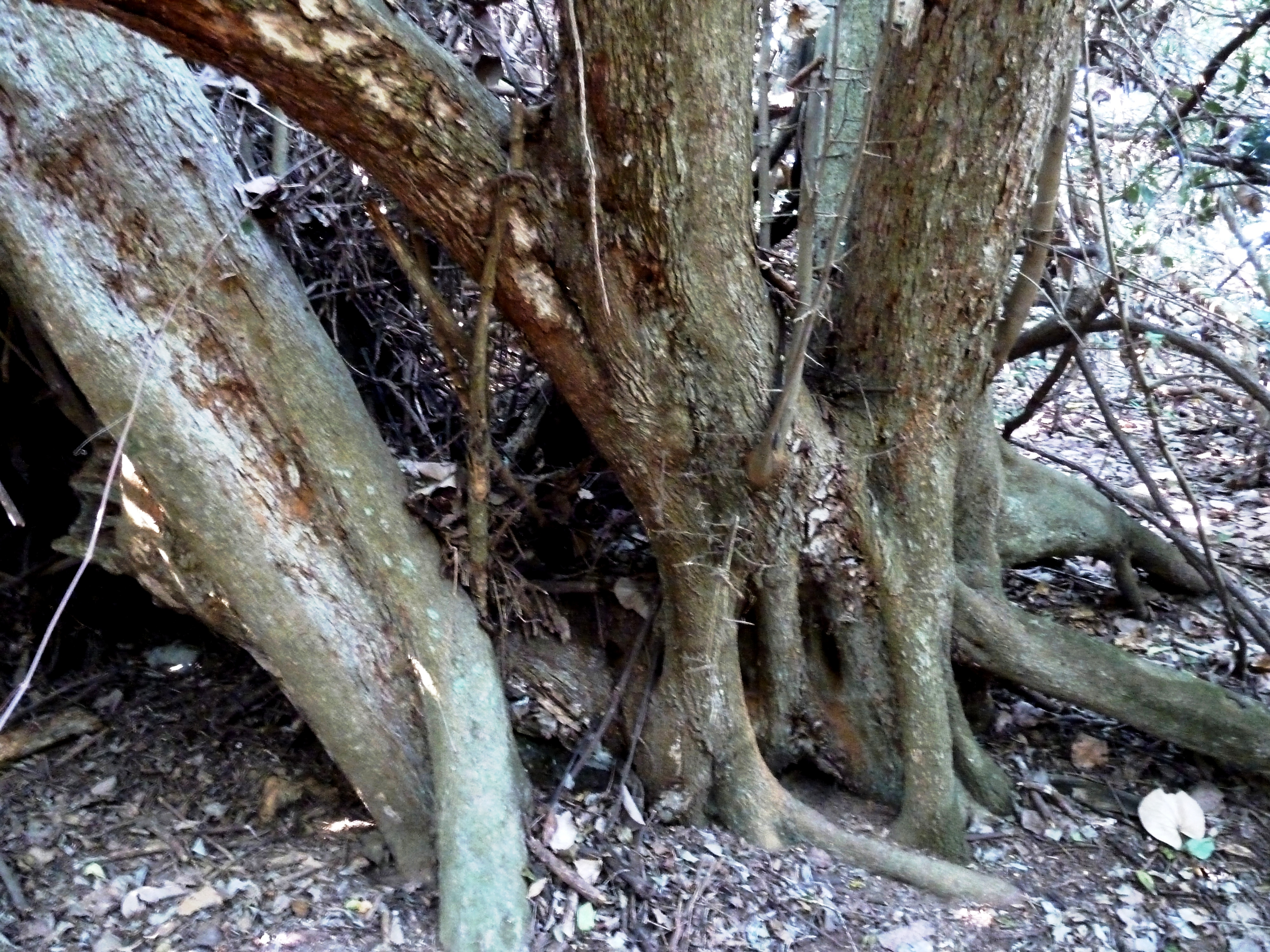 Trunk of a Thorny elm in Umhlanga Lagoon Nature Reserve, KwaZulu-Natal